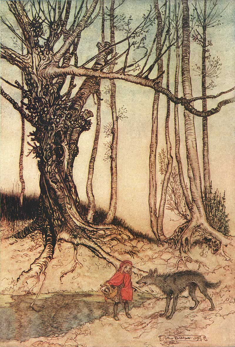 "When she got to the wood, she met a Wolf" (source, alternate source). Illustration from fairy tale of "Little Red Riding Hood", from The Fairy Tales of the Brothers Grimm (1909) (source, alternate source).A digitized edition of the original book can be read here; however, note that some illustrations, including this one, are missing.